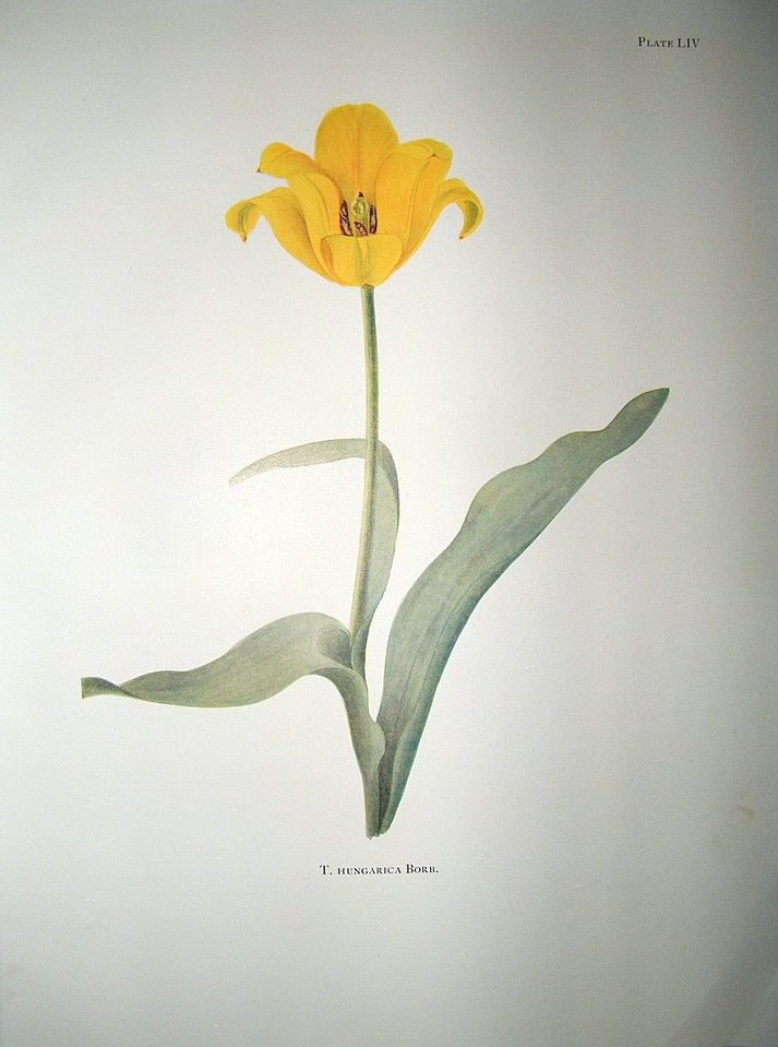 From: William Rickatson Dykes, Notes on tulip species; edited and illustrated by Elsie Katherine Dykes; London 1930